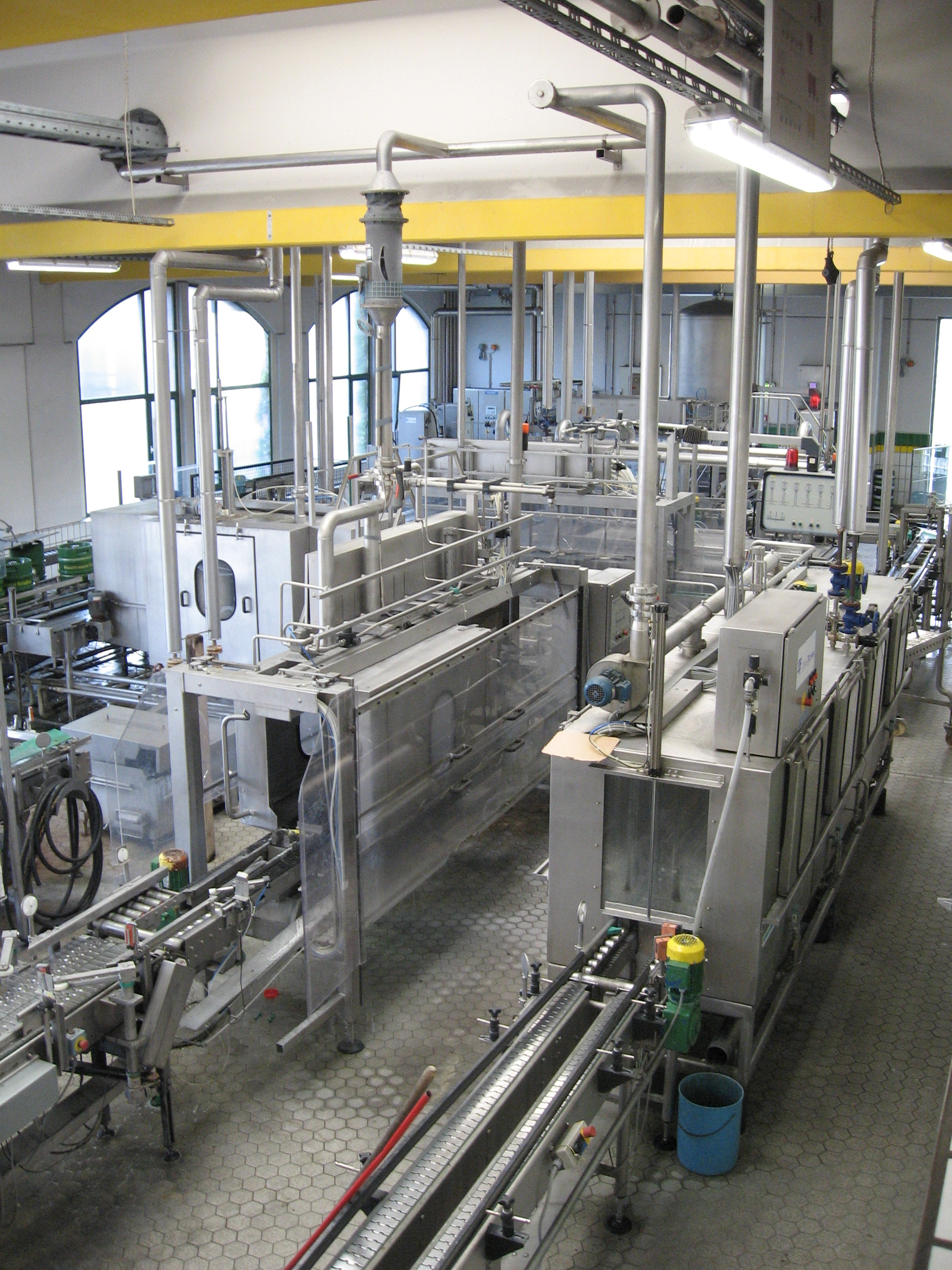 Privatbrauerei Hoepfner, a German Brewery near Karlsruhe. This image: The filling machine